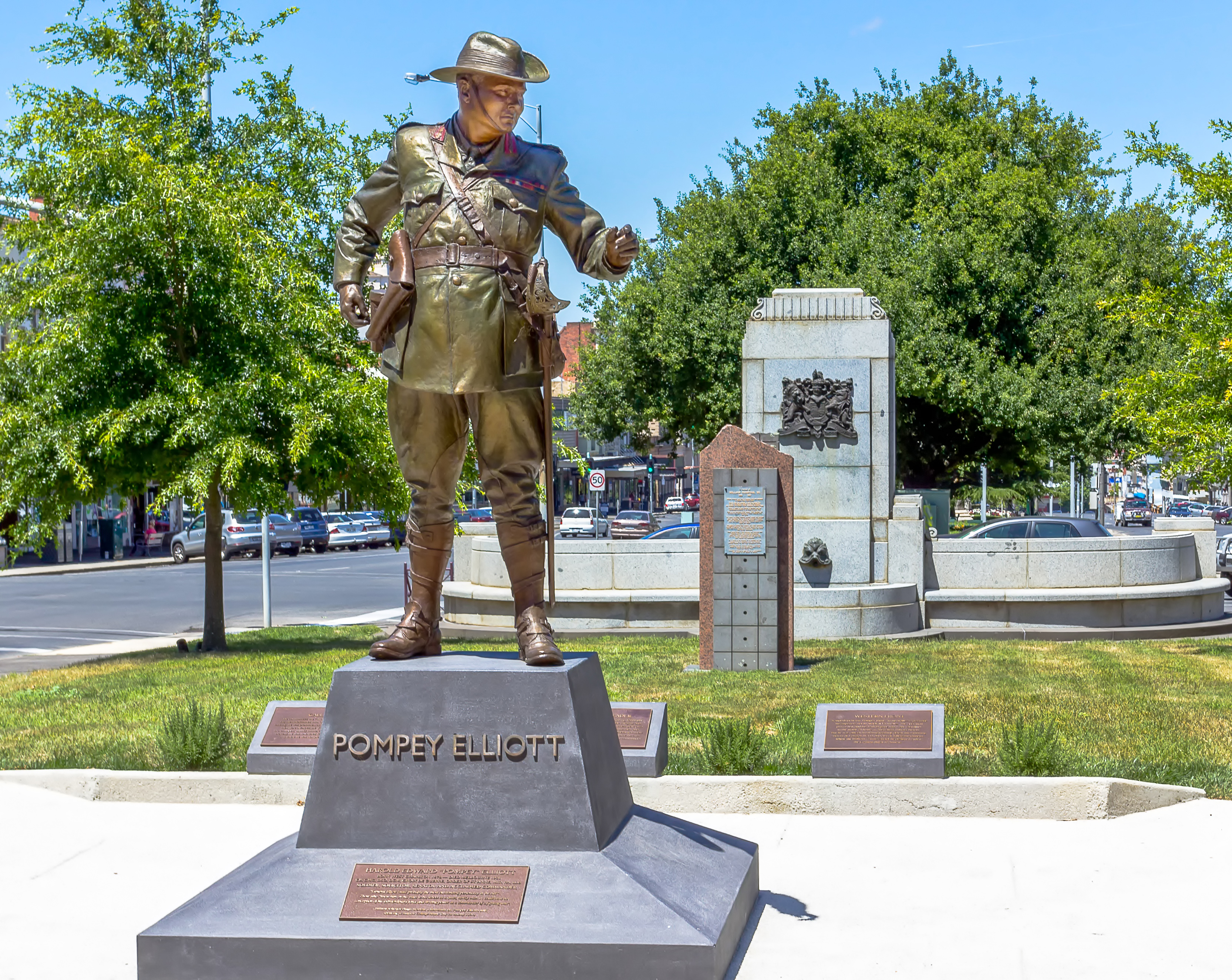 Major Harold Elliott was an officer in the Australian Army during World War One, This is a statue of him in Ballarat Victoria, Australia.